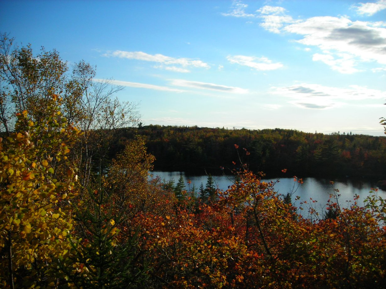 View from the Bluff-Trail west to a northern part of the Cranberry Lake.